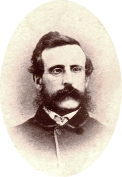 Thomas Bradley Harris (ca. 1862), merchant and co-founder of the US colony "Ellena" on the Island of Borneo